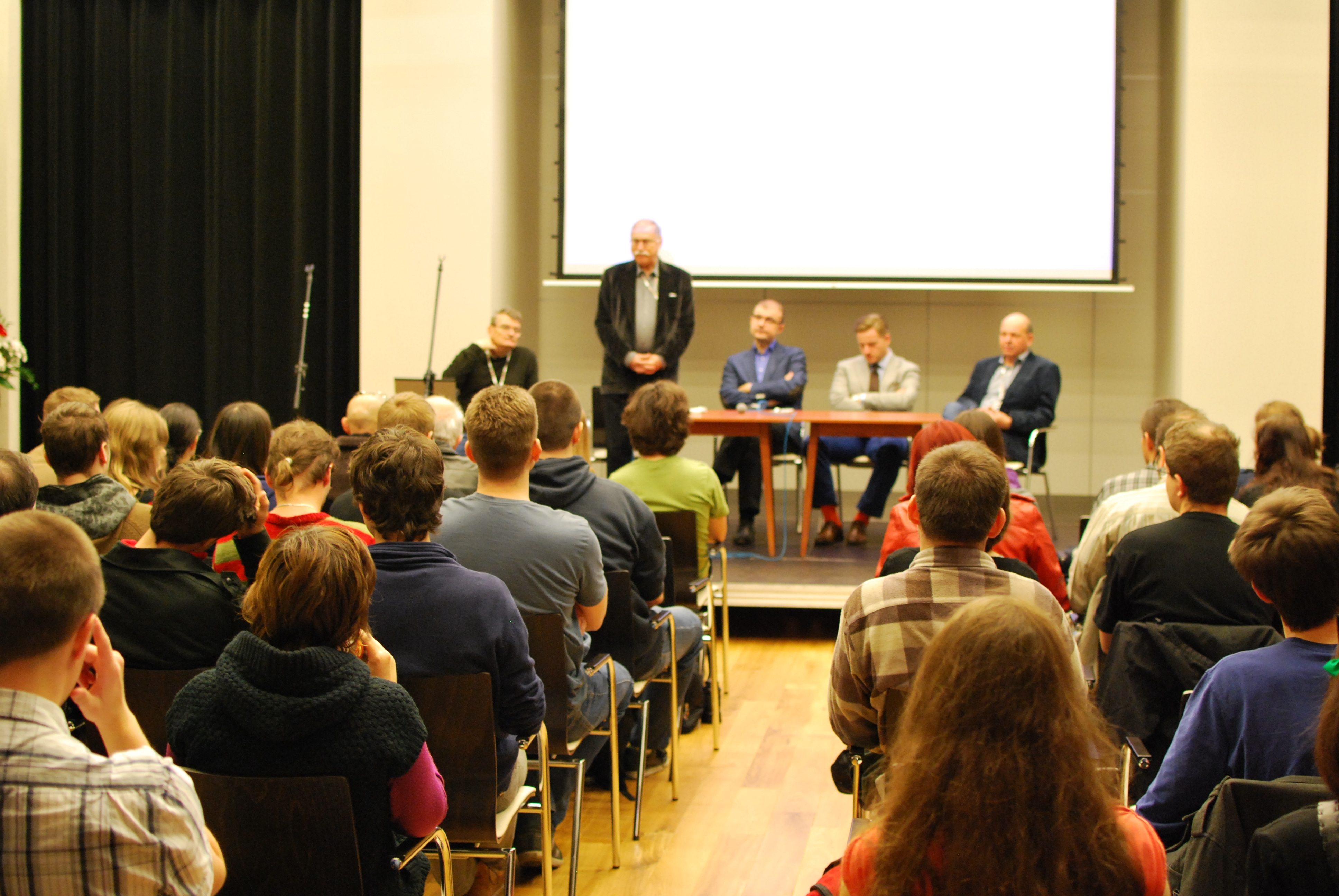 30th anniversary of 'Fantastyka' magazine, meeting od editors and authors: Maciej Parowski, Lech Jęczmyk, Jacek Dukaj, Szczepan Twardoch, Marek Baraniecki, Festival of Comics in Łódź 2012